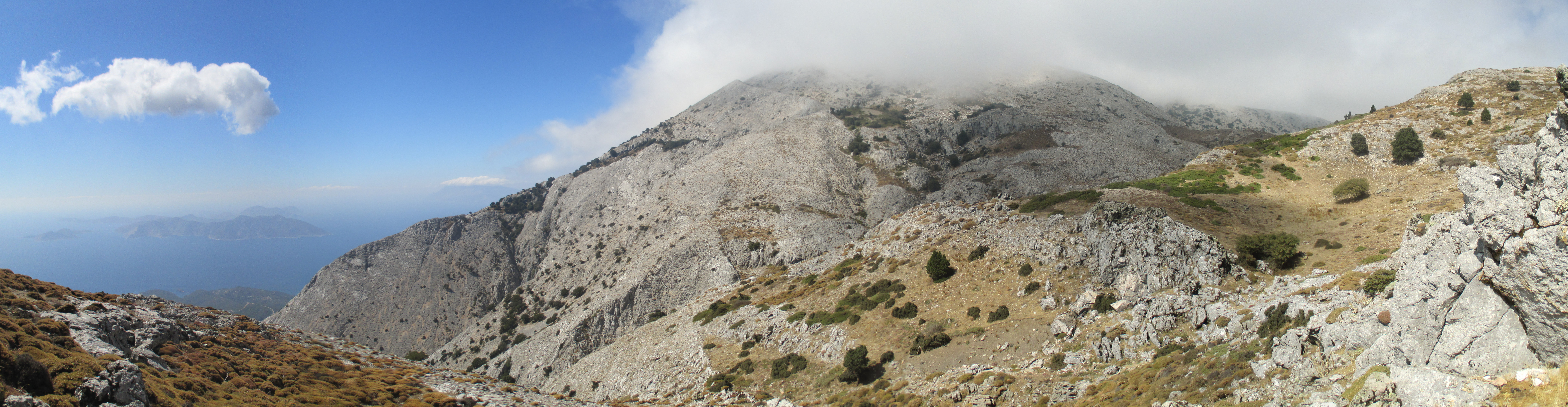 Peak of Mount Kerkis, Samos, Greece.